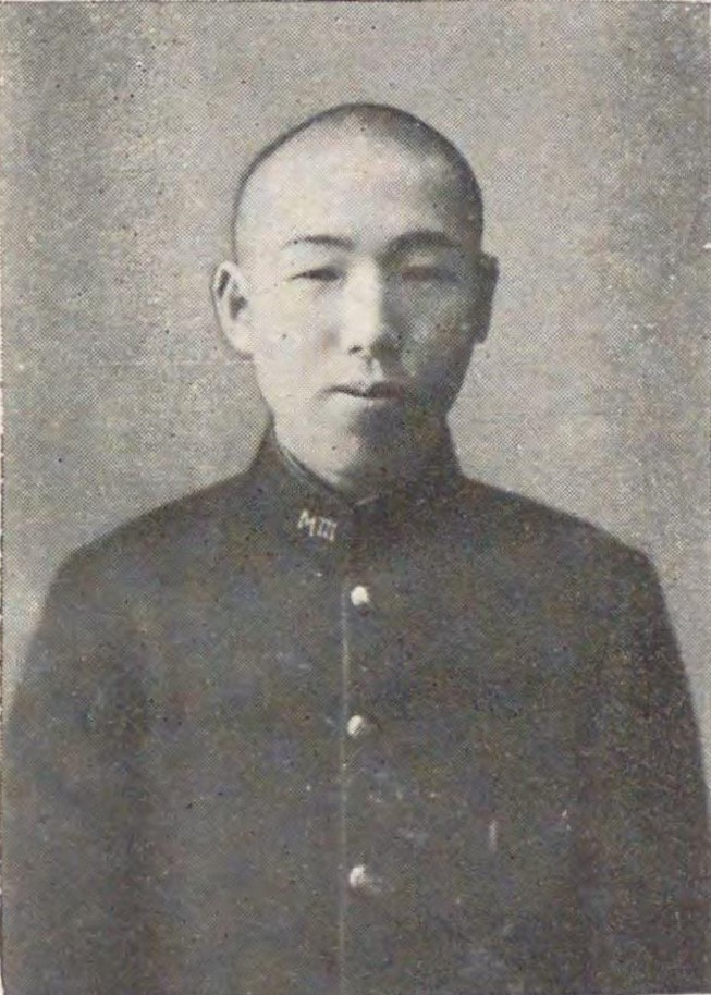 Miyazawa Kenji as a student of Morioka Agricultural and Forestry College.